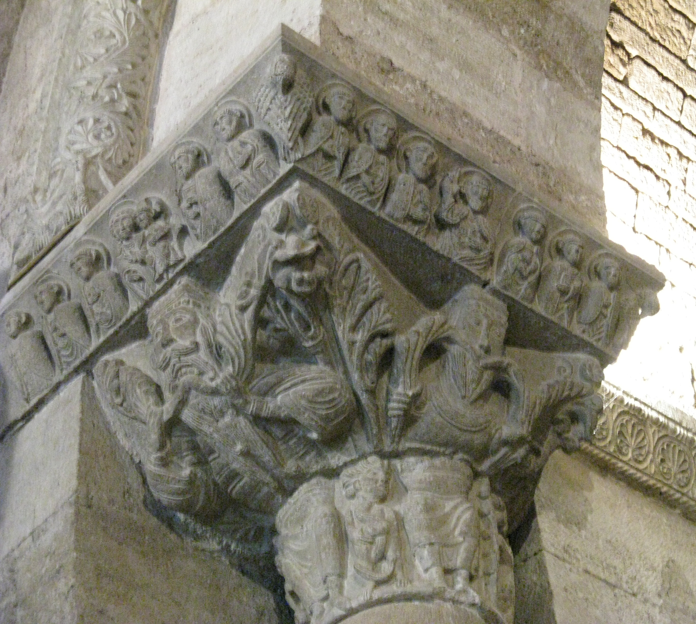 Left capitel in the victory arch (Blessing Christ with his apostels) Roman church Santa Maria de Porqueres, Catalonia